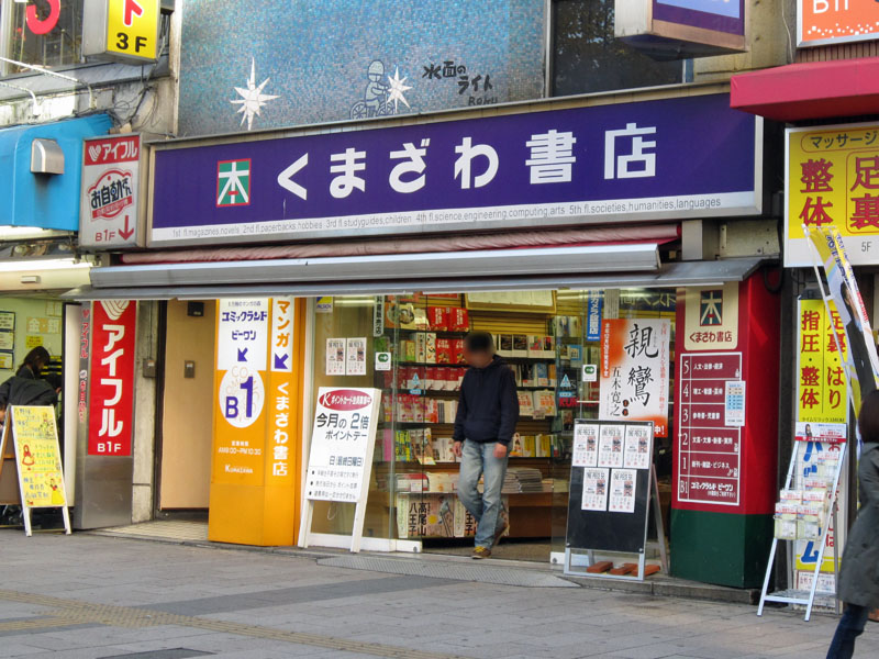 Kumazawa Bookstore, Hachioji, Tokyo, Japan